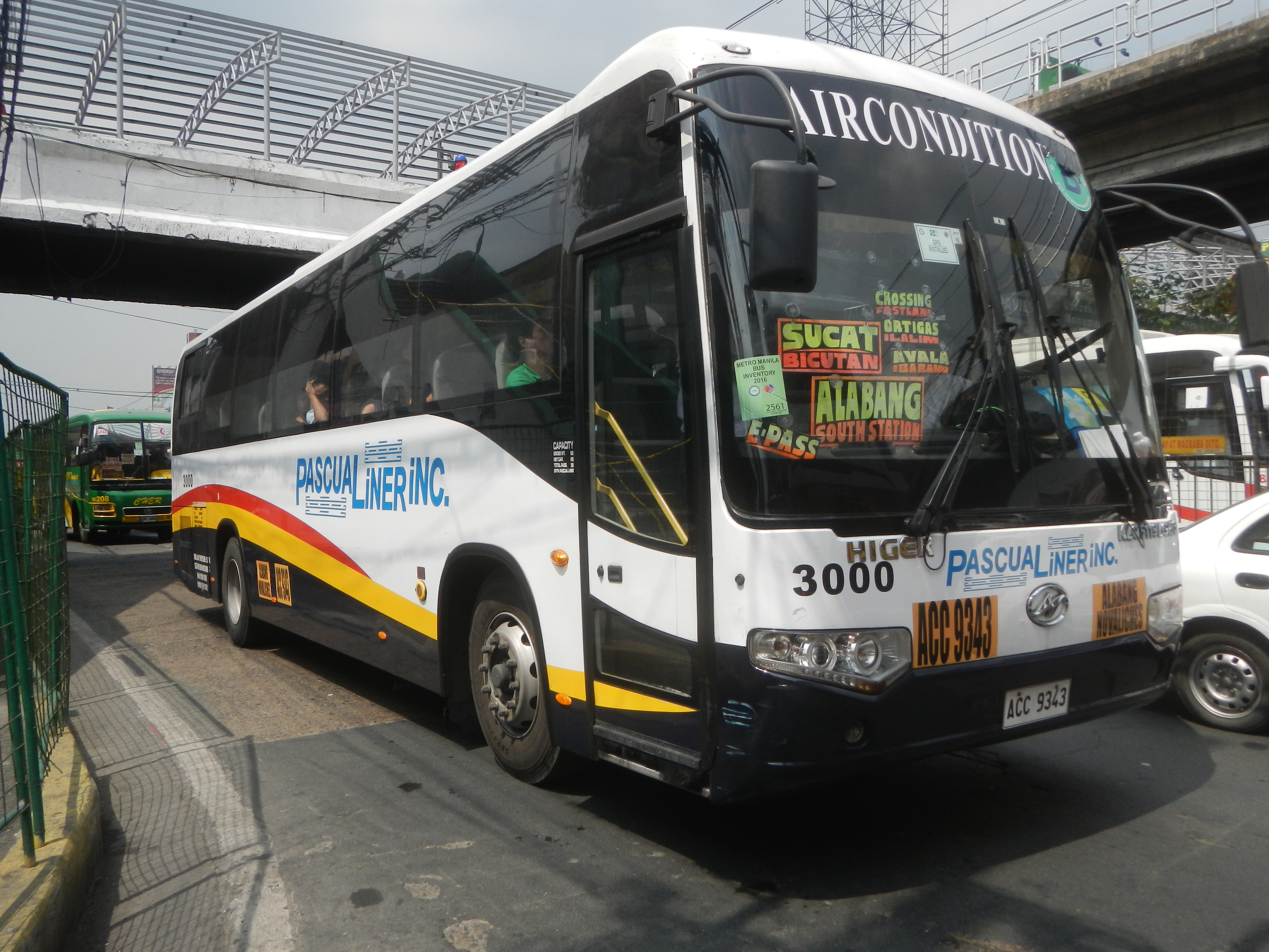 Drivers in the Philippines (Manila LRT Line 1 trains) at Balintawak LRT Station, Santrans Pascual Liner, Inc. Jac Liner Cubao Elementary School (Aurora Boulevard, Quezon City) (Note: Judge Florentino Floro, the owner, to repeat, Donor Florentino Floro of all these photos hereby donate gratuitously, freely and unconditionally all these photos to and for Wikimedia Commons, exclusively, for public use of the public domain, and again without any condition whatsoever).